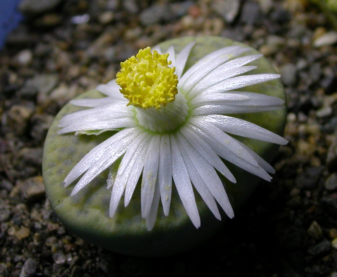 Flowering Lithops fulviceps cv. 'Aurea' (plant collection of Ivan I. Boldyrev, Berdsk, Russia)